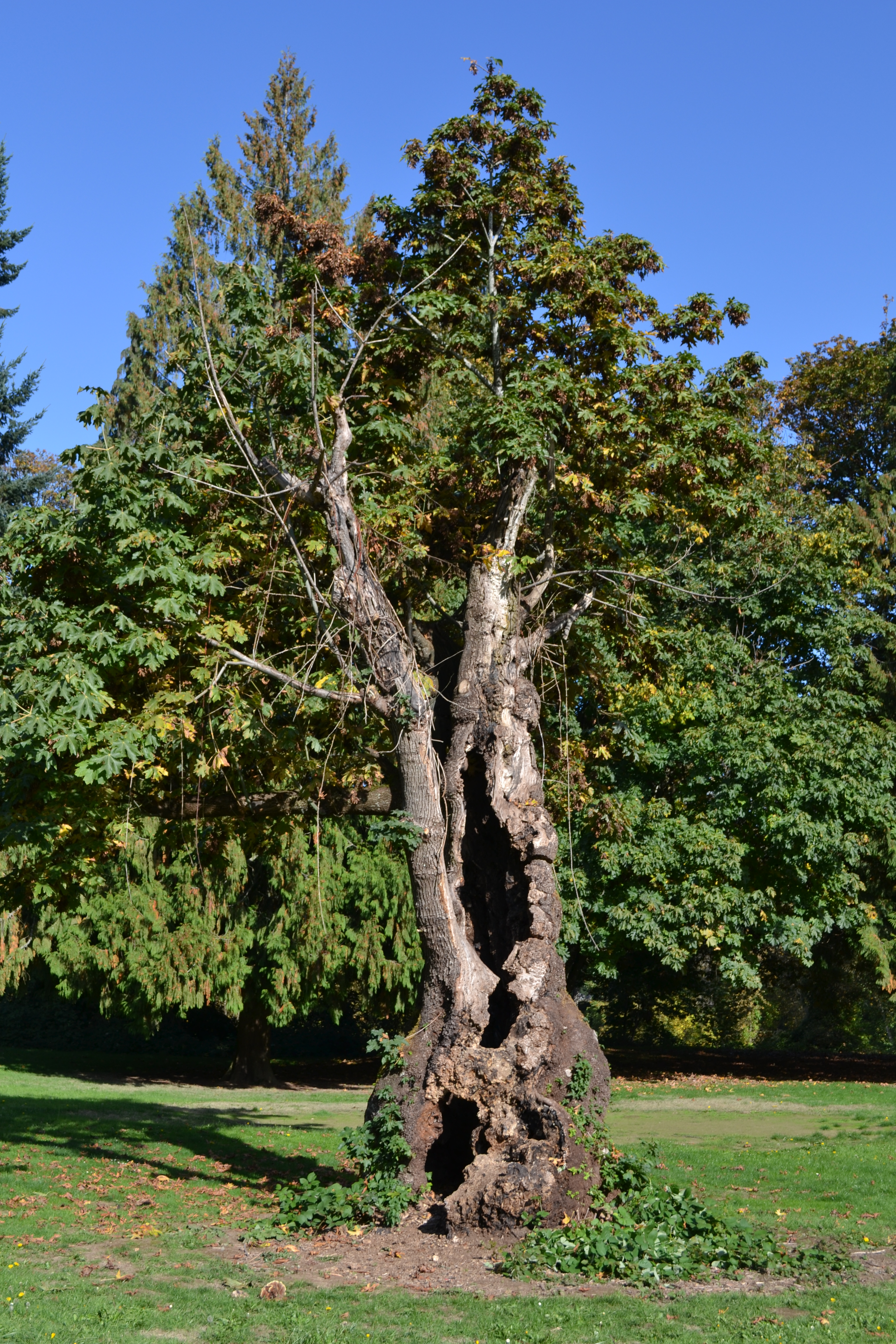 Armitage Park Tree (Acer macrophyllum), in Lane County, Oregon